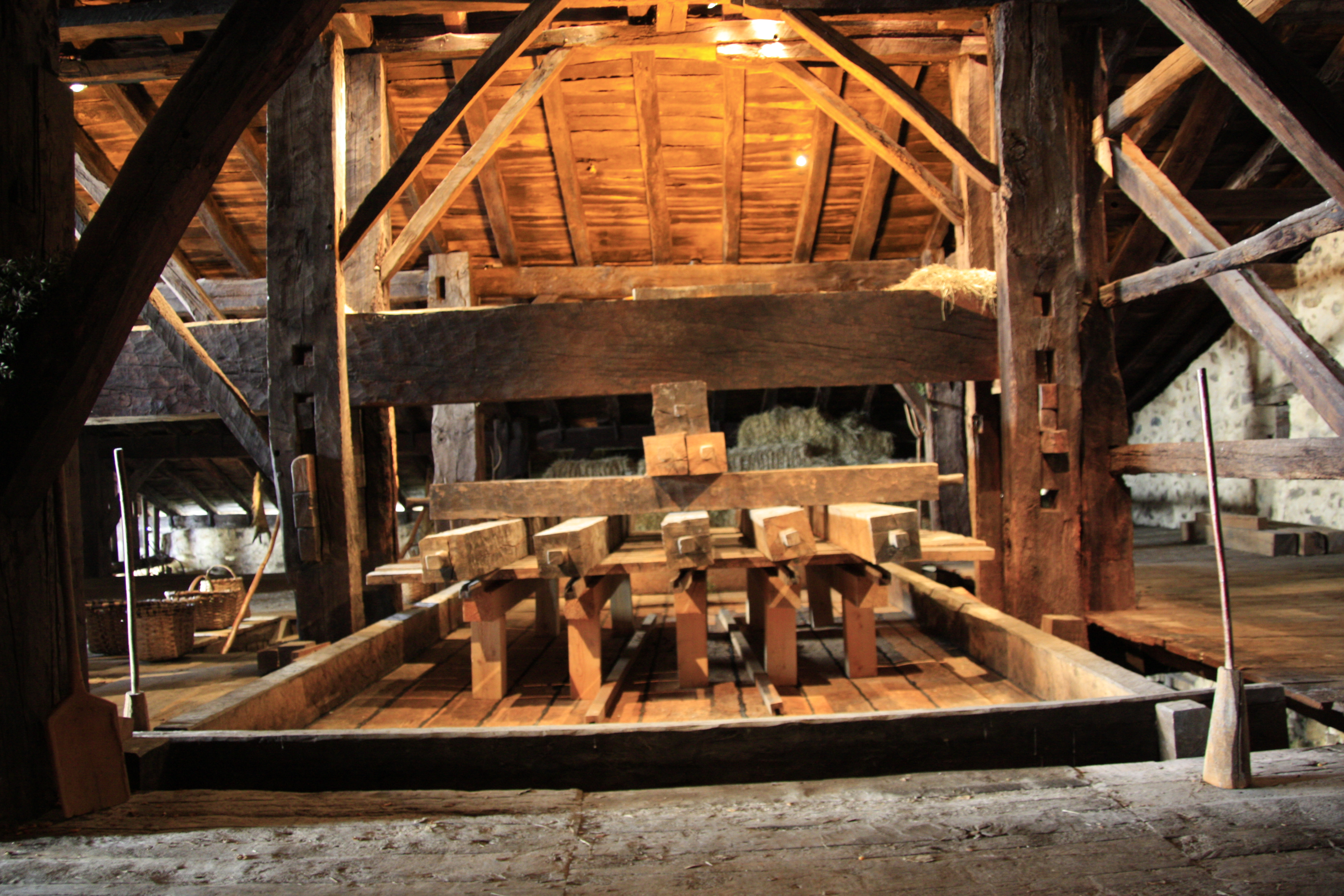 A cider-maker house inside Igartubeiti Farm Museum in Ezkio-Itsaso village. Guipuscoa, Basque Country.